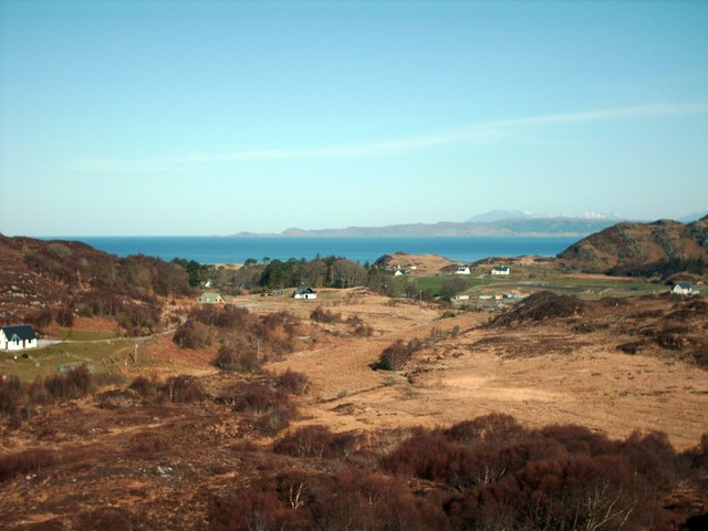 Towards Glenancross